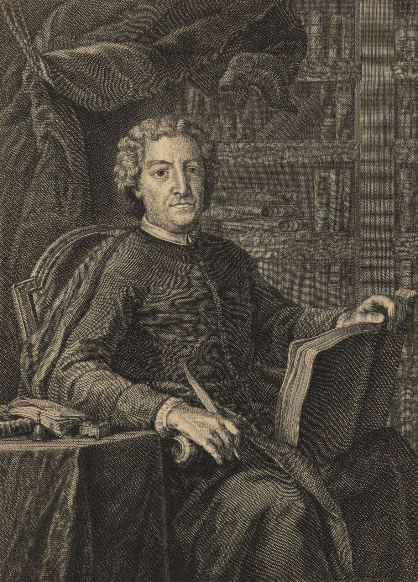 Diogo Barbosa Machado (1682-1772), Catholic priest, writer, and bibliograph from Portugal.